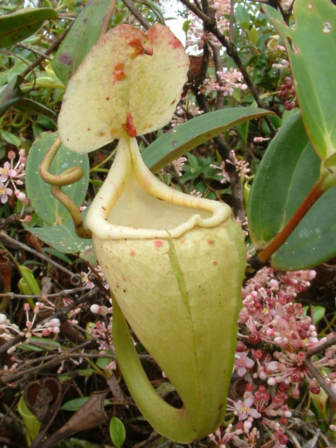 Nepenthes maxima from Western New Guinea (~1500 m asl)